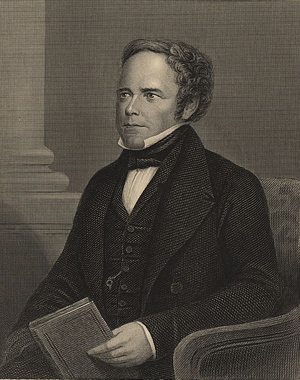 William Thomas Brande (1788–1866), English chemist.